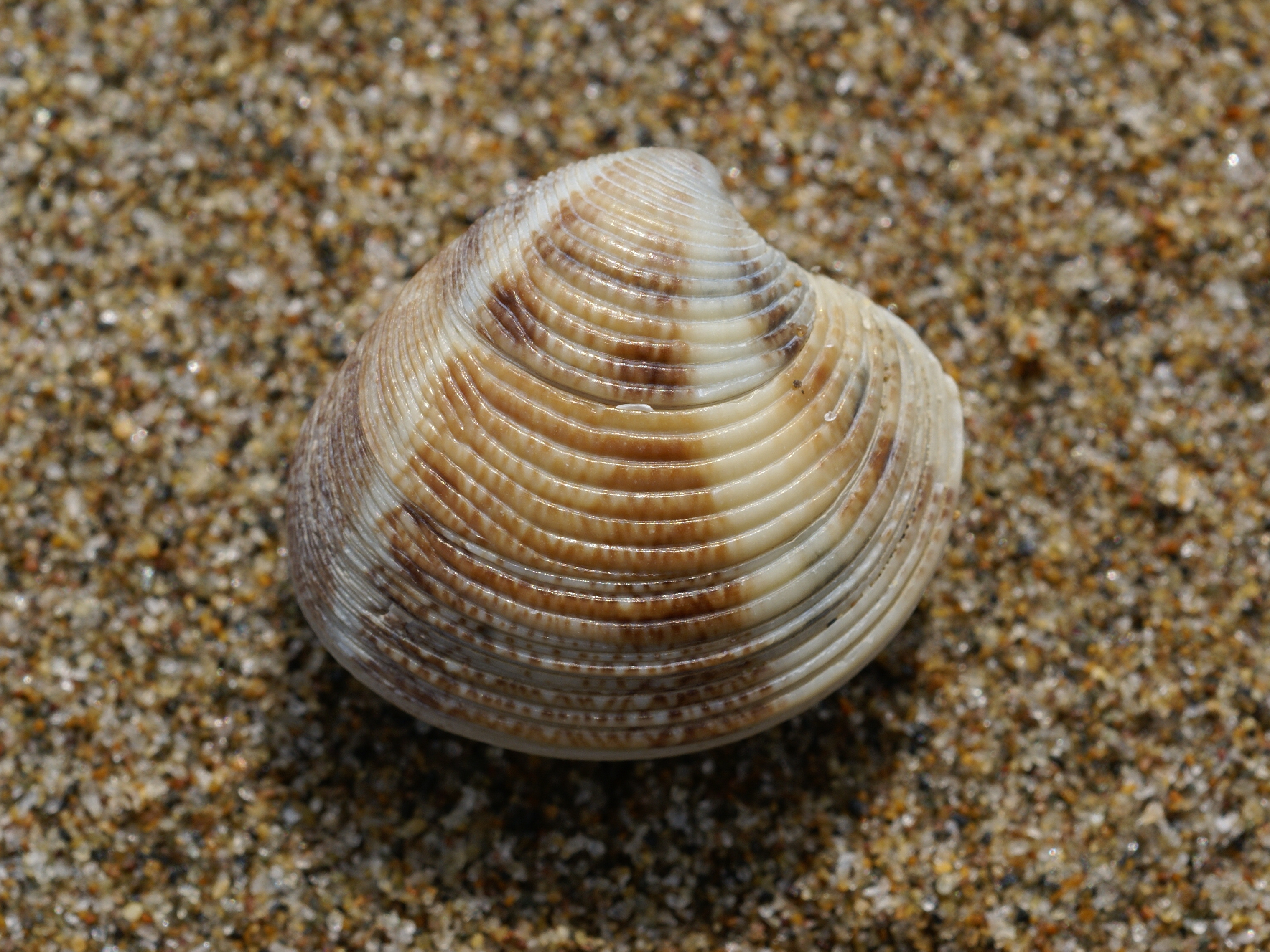 Striped venus clam near Riumar, Baix Ebre, Catalonia, Spain